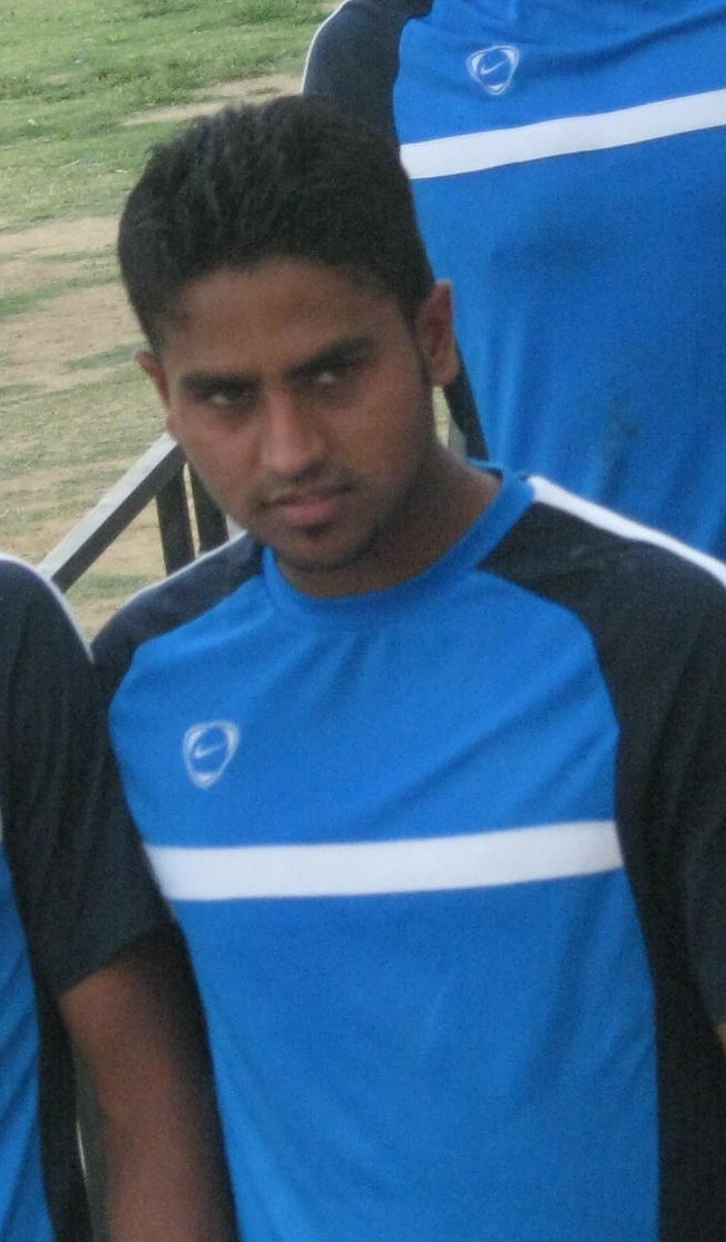 Bikramjit Singh (born 1992) is an Indian football player. He is currently playing for Indian Arrows in the I-League as a Midfielder